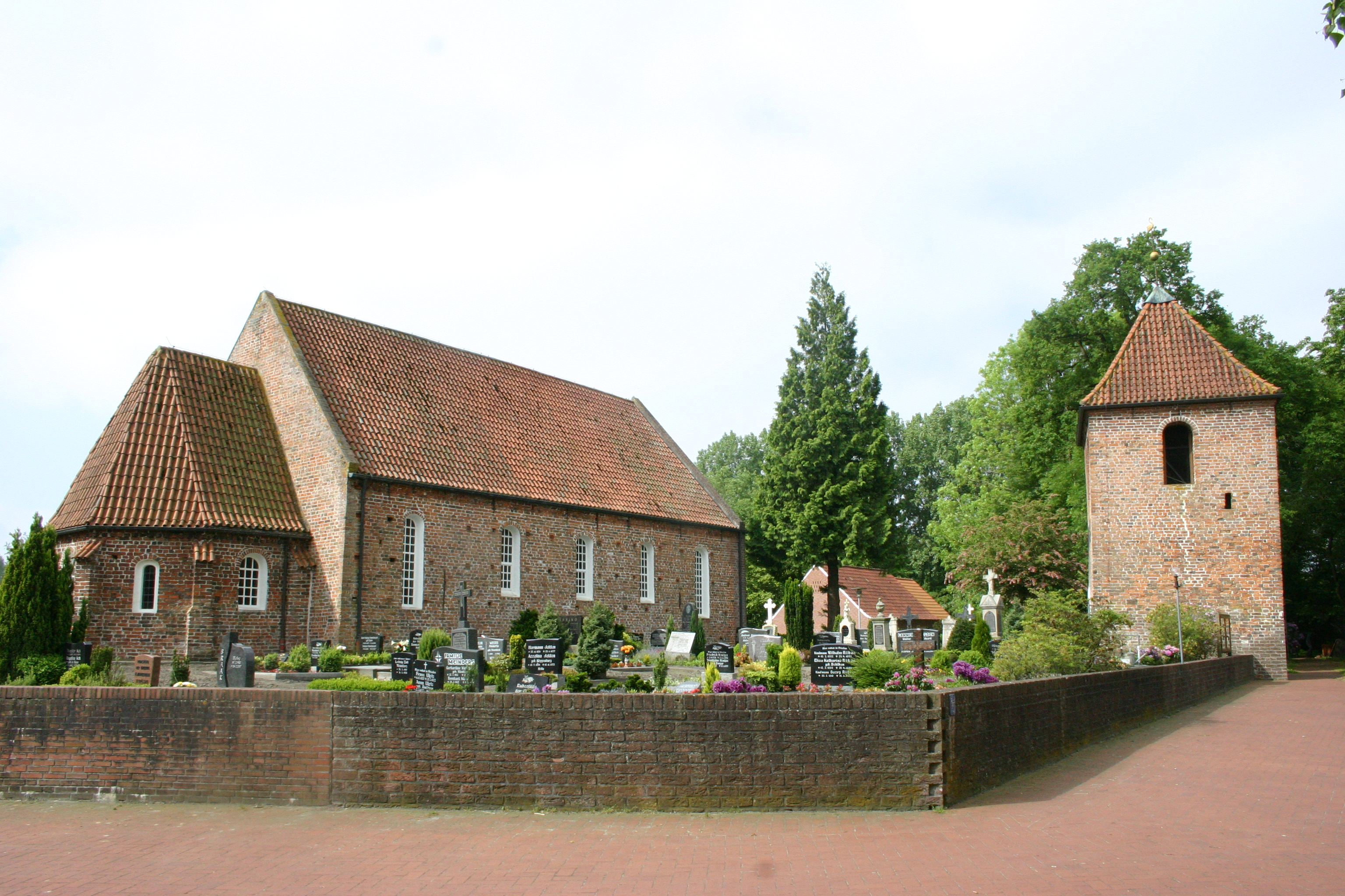 Historic church in Rhaude, district of Leer, East Frisia, Germany